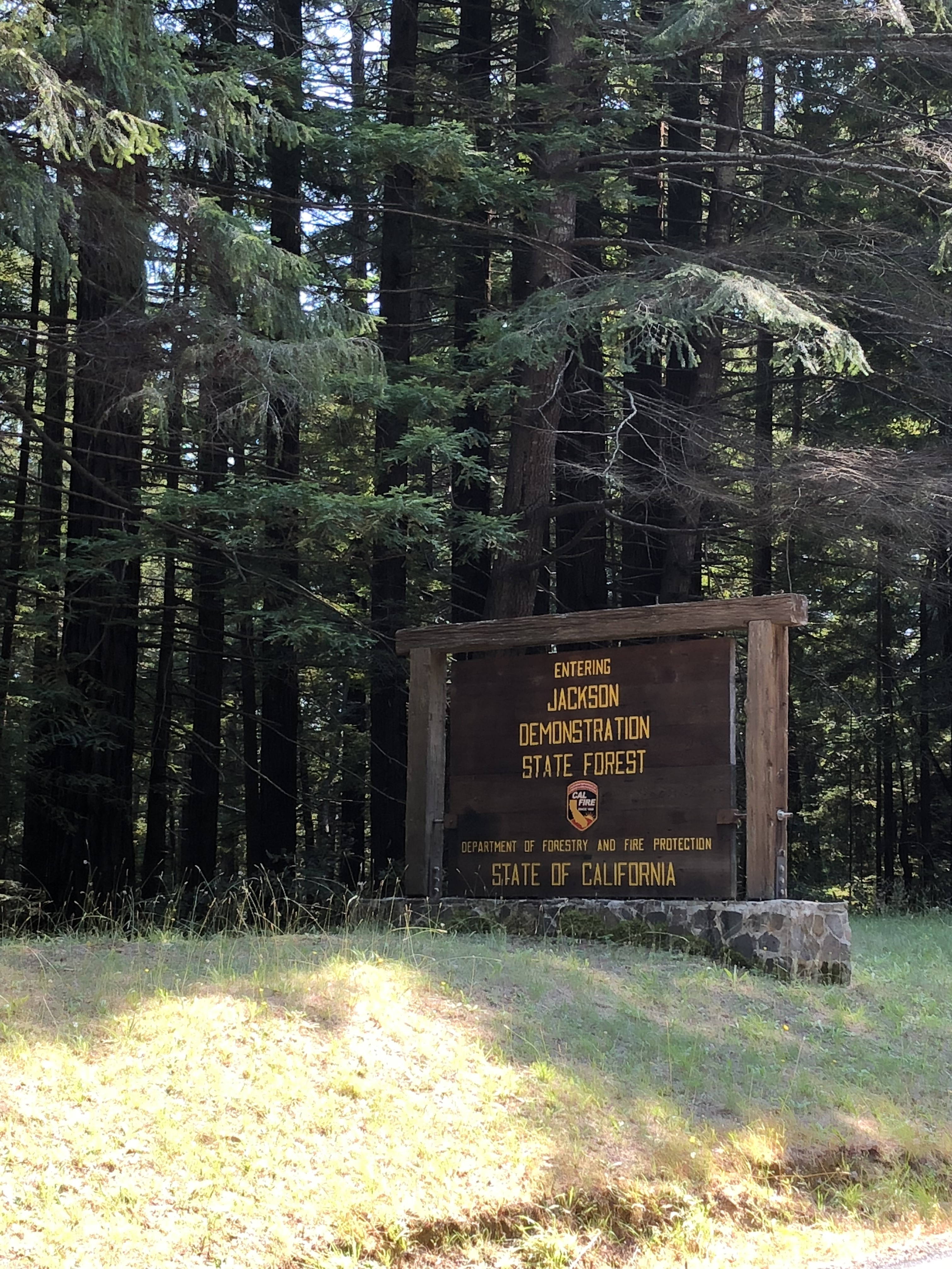 Jackson Demonstration Forest Sign, Fort Bragg, California